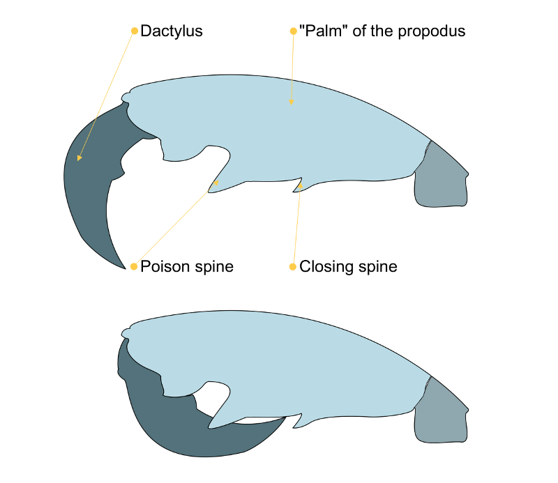 Gnathopod anatomy of Caprella mutica (Amphipoda: Caprellidae)